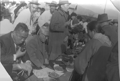 Kim Jun-yeon, Korean Politicians and Indipendunce Activists